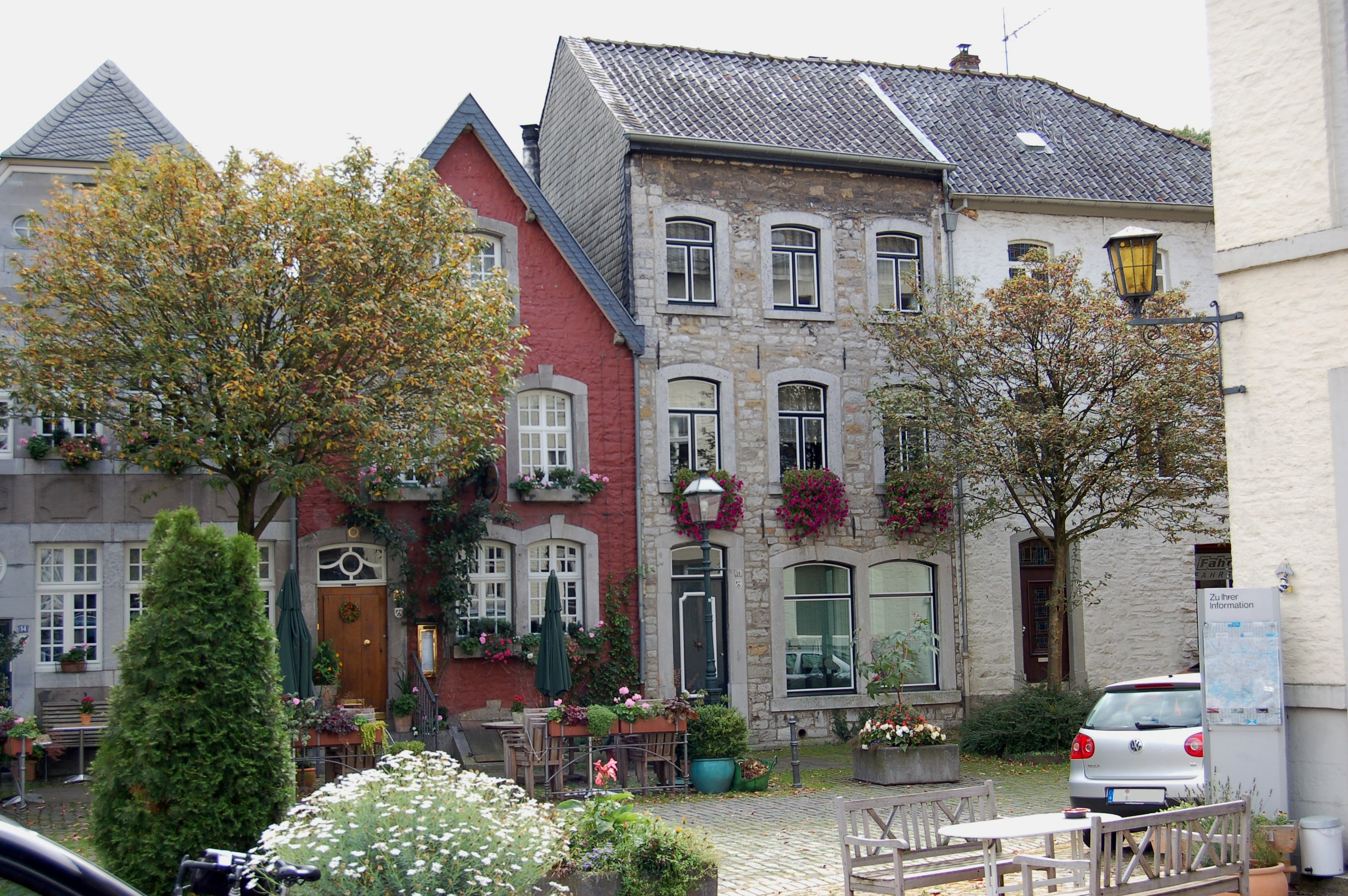 Houses Benediktusplatz 8, 10, 12, 14 in Kornelimünster